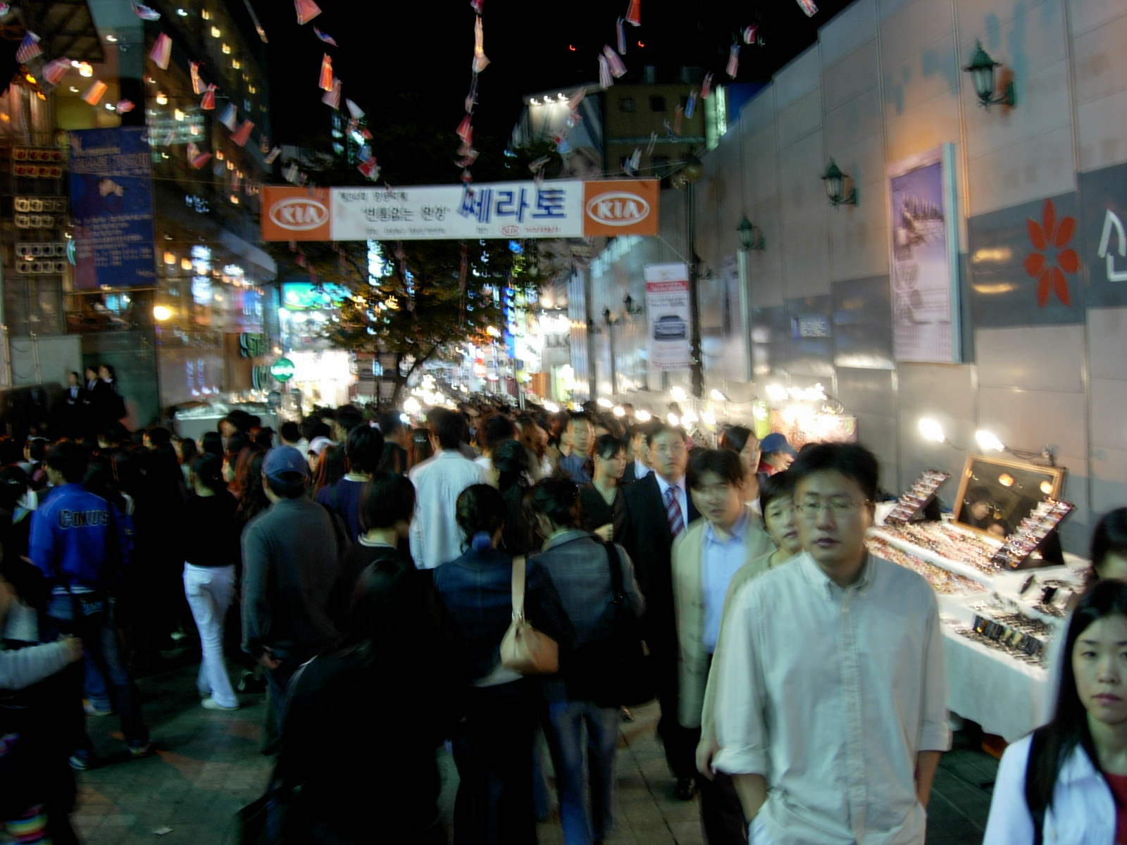 a Seul's center street by night